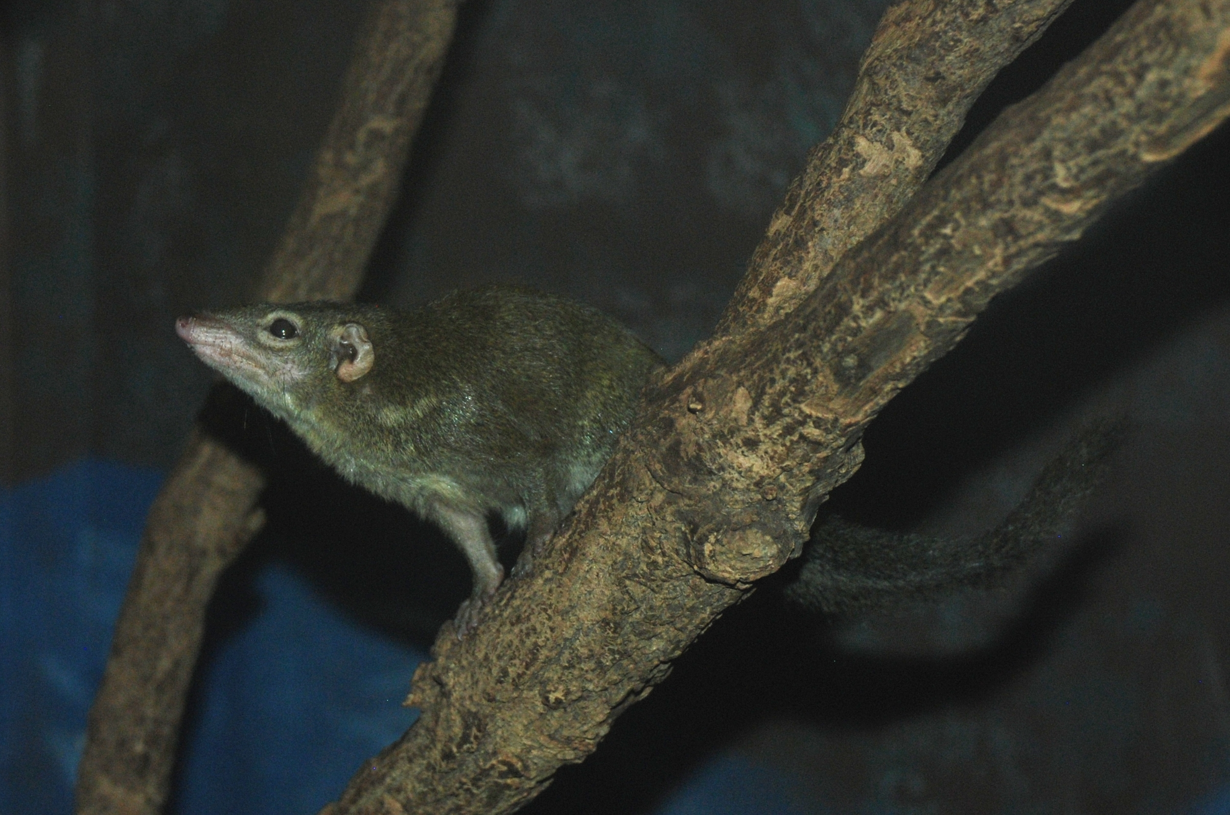 Mammals of National Zoo in Washington, D.C. - Northern Treeshrew (Tupaia belangeri)